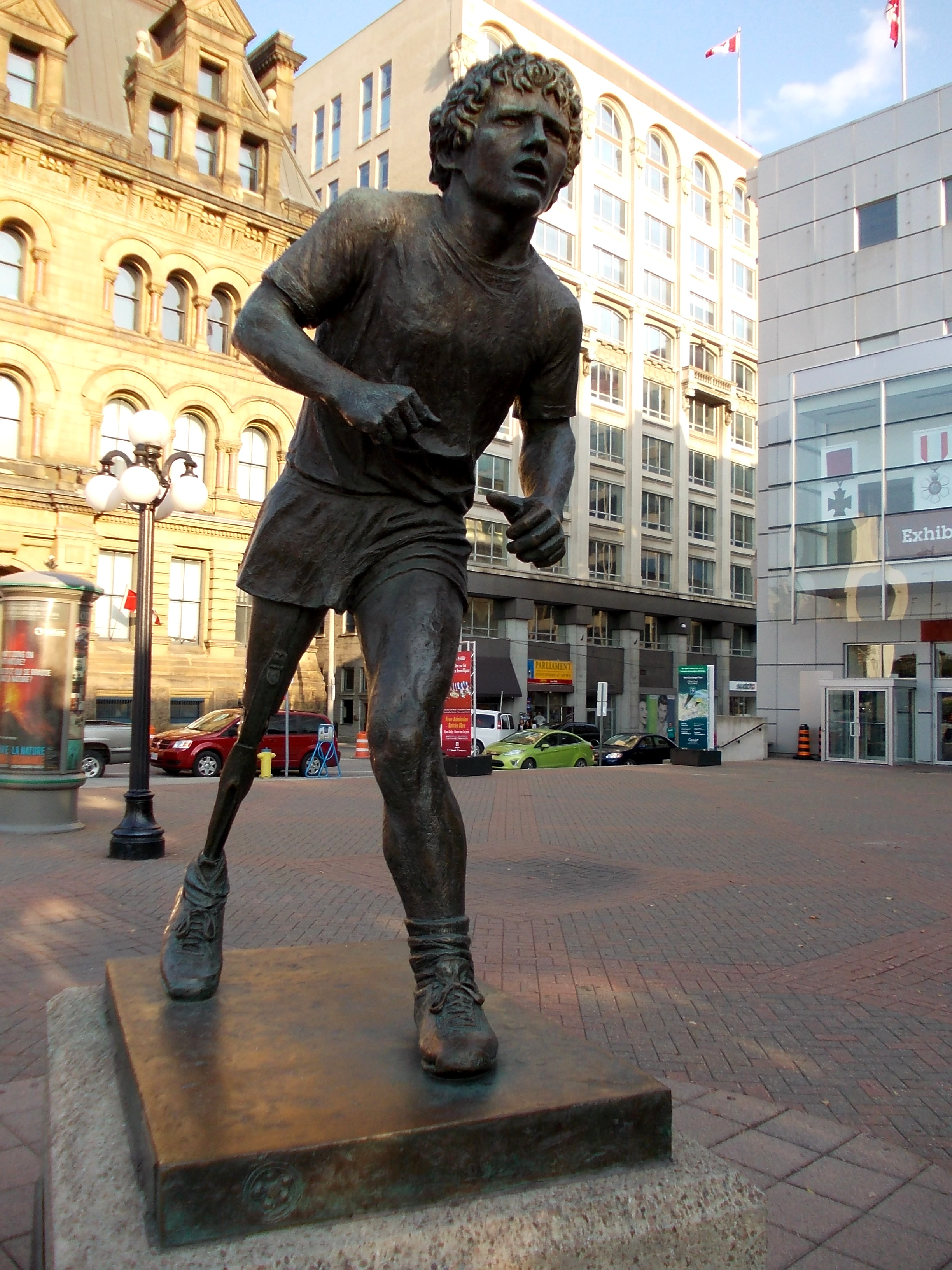 Terry Fox Monument in Ottawa